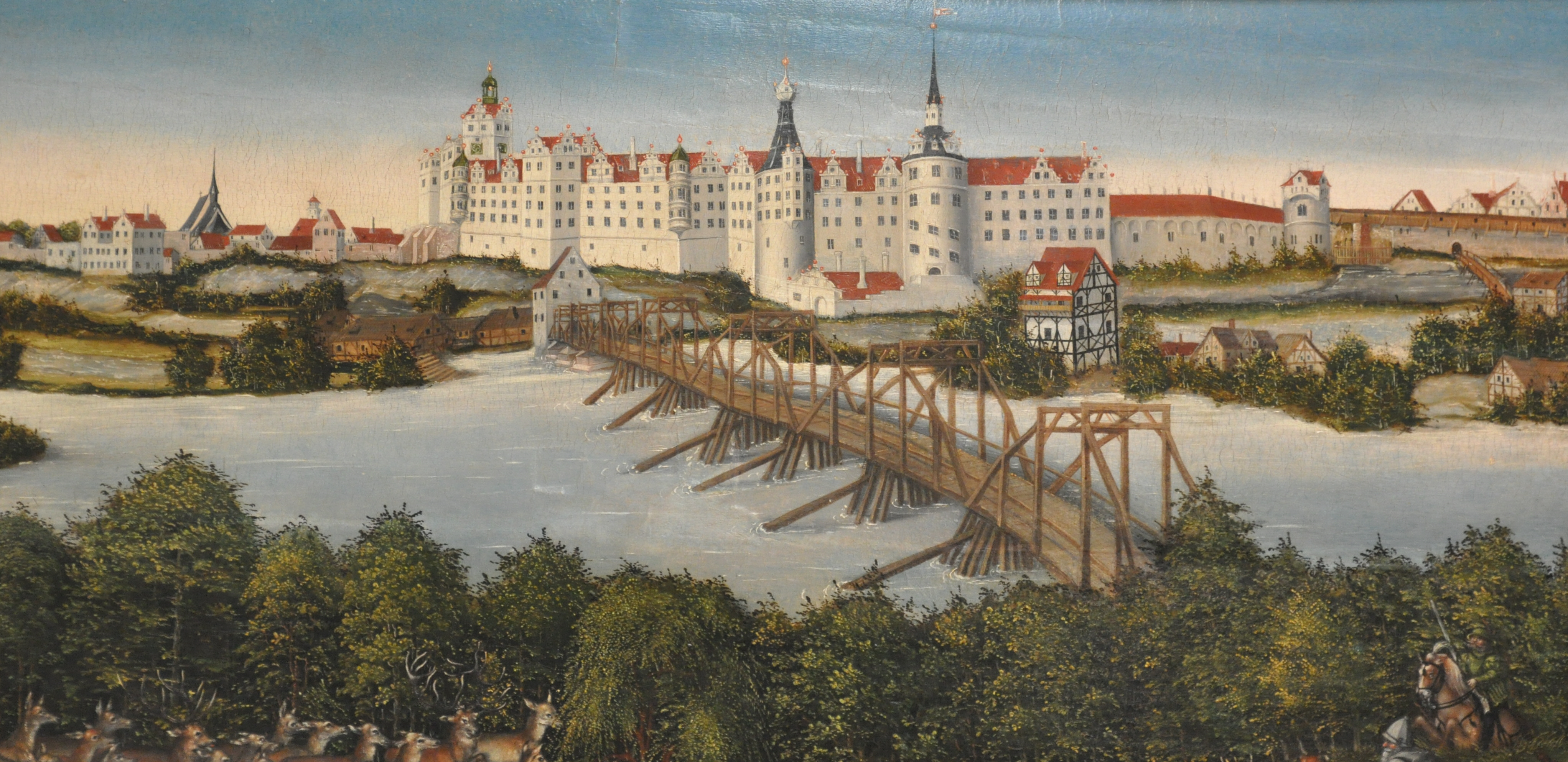 All persons shown: Elector John Frederick, son of John of Saxony and Emperor Charles V., son of Philip of Habsburg